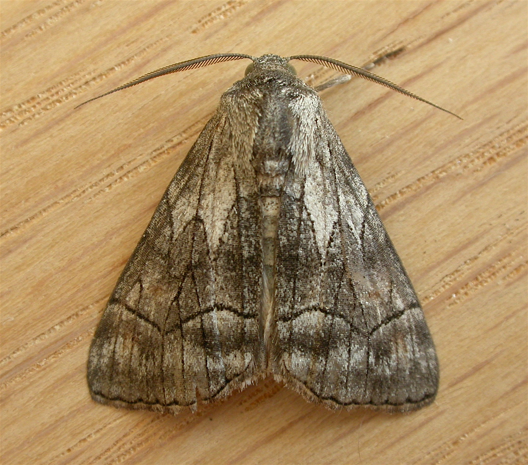 Stibaroma melanotoxa Guest, 1887, male, to MV light in Aranda, ACT, 4/5 April 2008